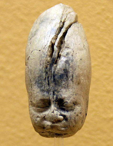 Head with upper egyptian king's headwear, it is asumed to be a depiction of Khufu (4th Dynasty), ca. 2600 BC (Staatliche Sammlung für Ägyptische Kunst in Munich).